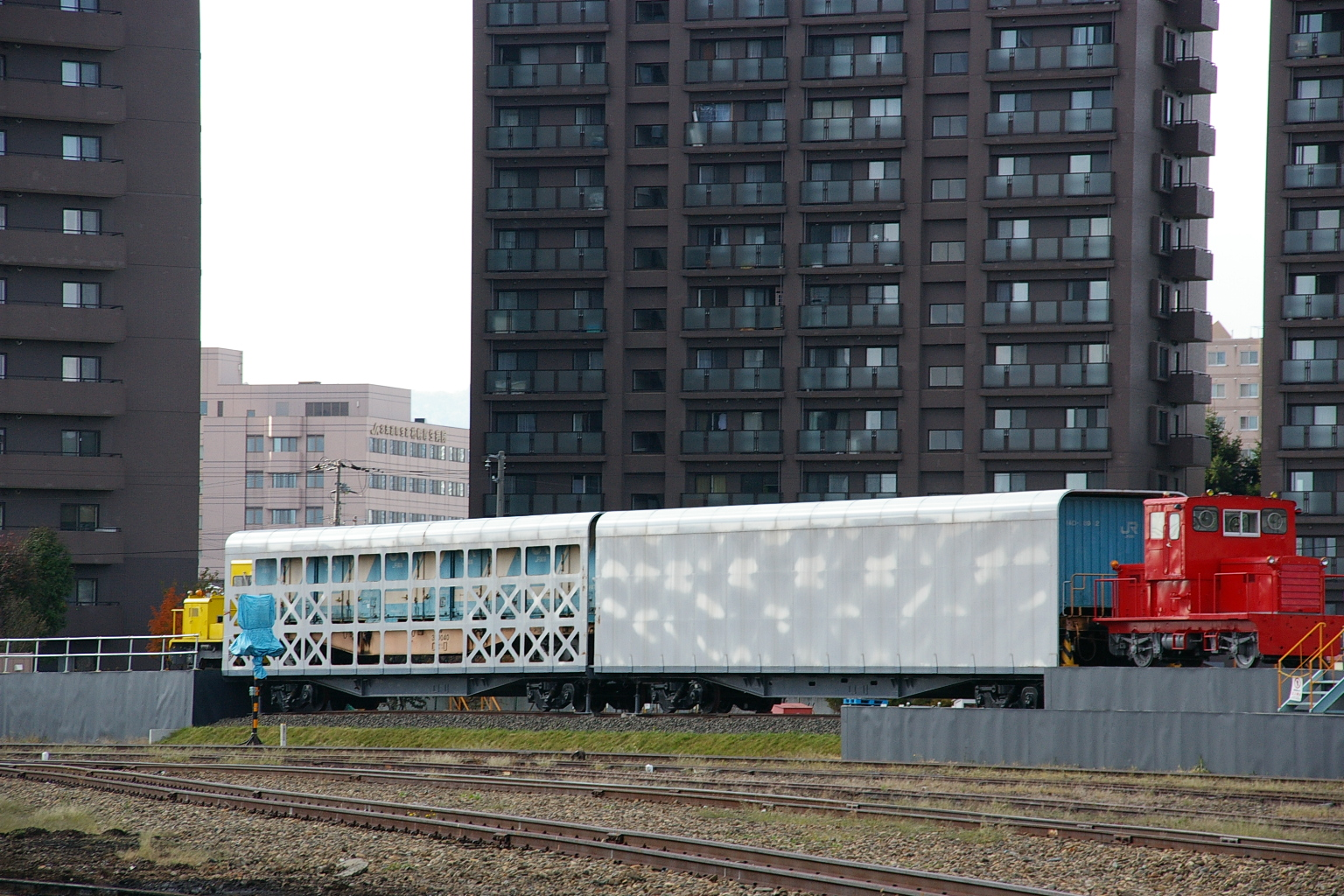 Train on Train system experimental facility in JR Hokkaido Naebo Workshop.